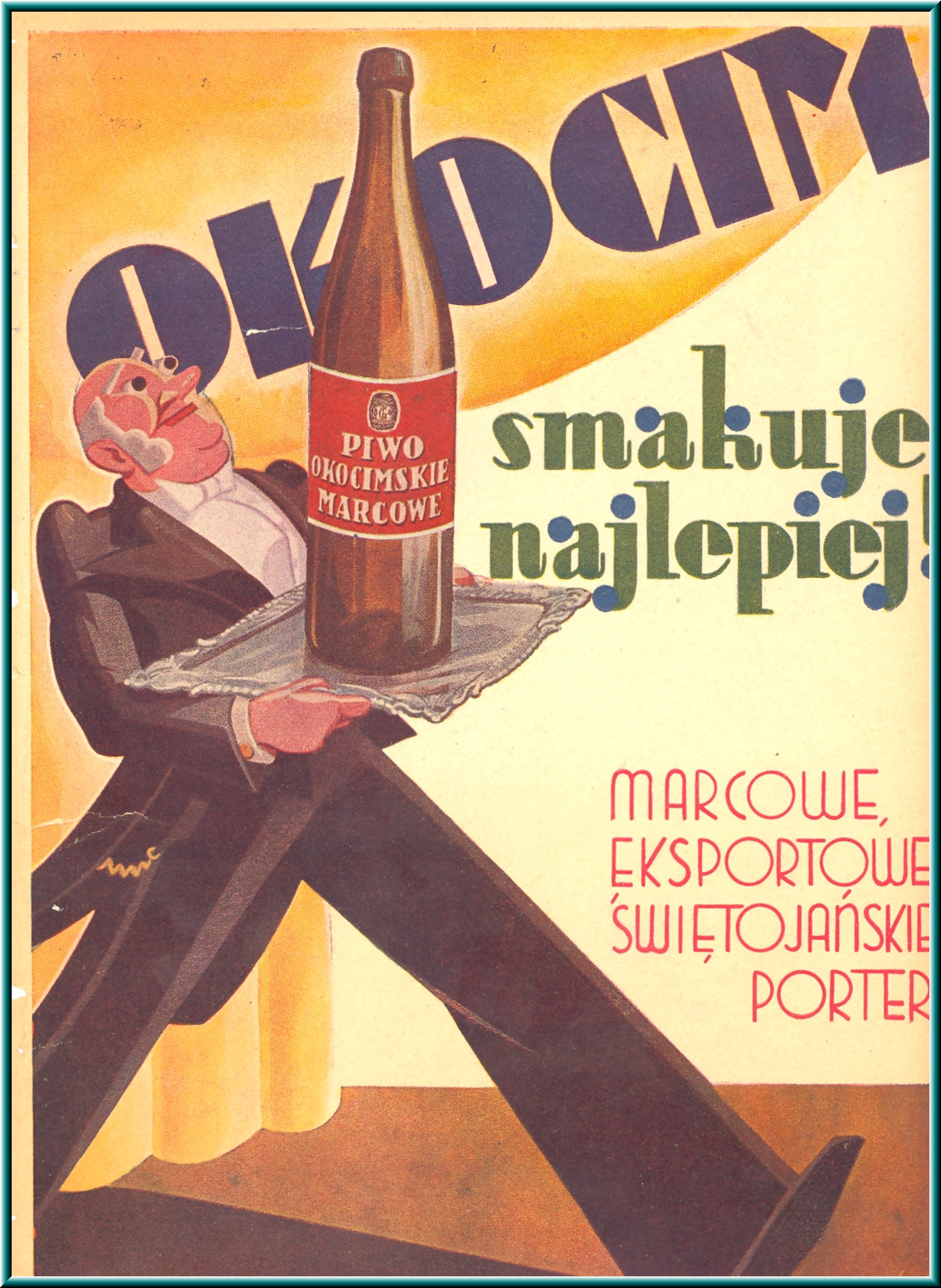 Advertising beer OKOCIM the interwar years